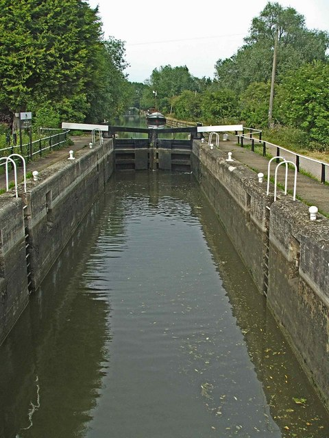 Lock on River Lee Navigation Lock on River Lee Navigation looking towards Dobb's Weir.